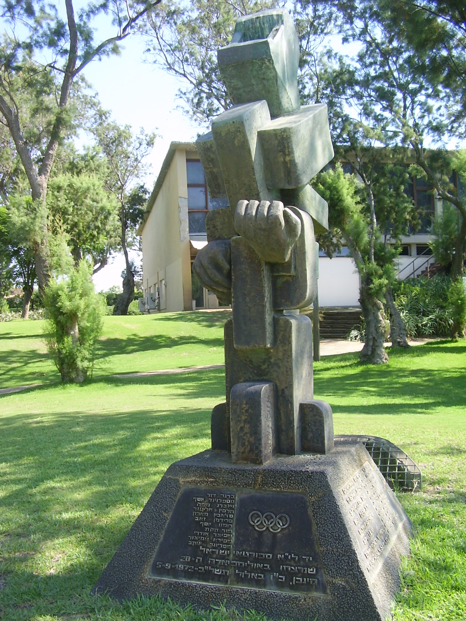 Monument to Munich Massacre, in Wingate Institute